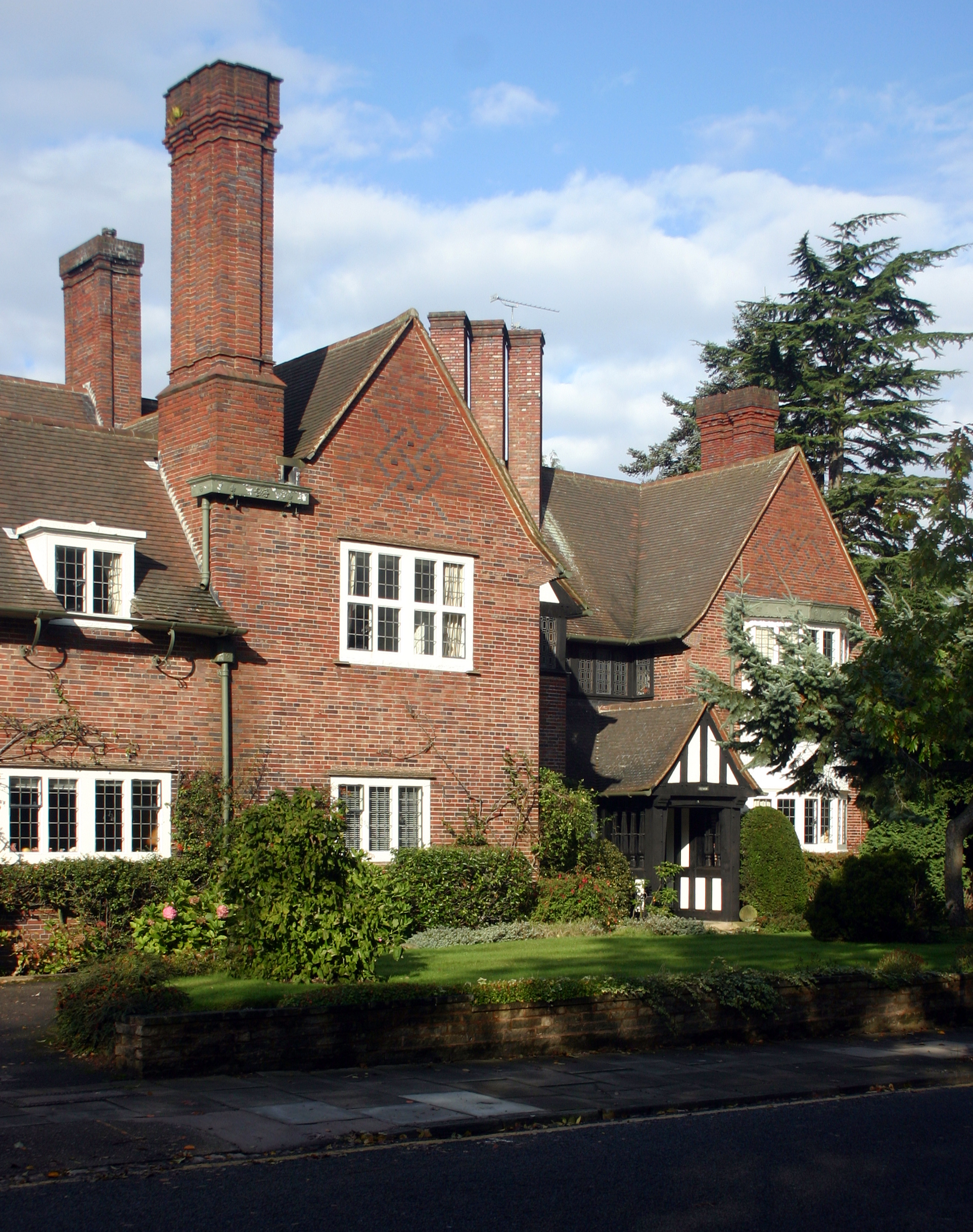 Kilmuir in Amesbury Road, Moseley, Birmingham. A listed Arts and Crafts house by Owen Parsons, built in 1904.